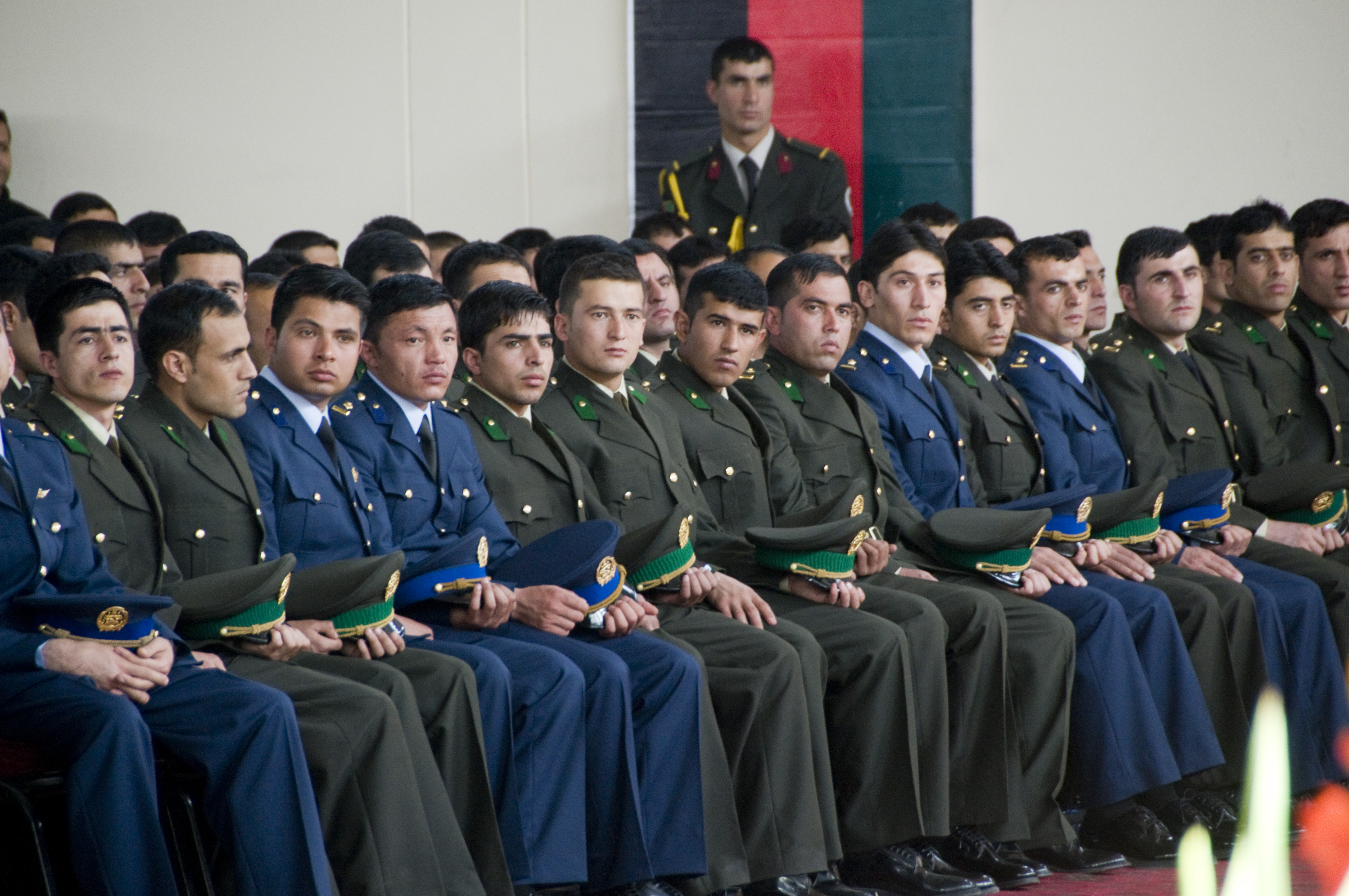 100318-F-1020B-101 Kabul - The National Military Academy of Afghanistan class of 2010 listens as Afghan President Hamid Karzai gives a speech during their graduation ceremony March 18, 2010. Only the second class to graduate from the academy, which is modeled after the United States Military Academy at West Point, these 212 new officers will join the Afghan National Army as lieutenants. (U.S. Air Force photo by Staff Sgt. Sarah Brown/RELEASED)